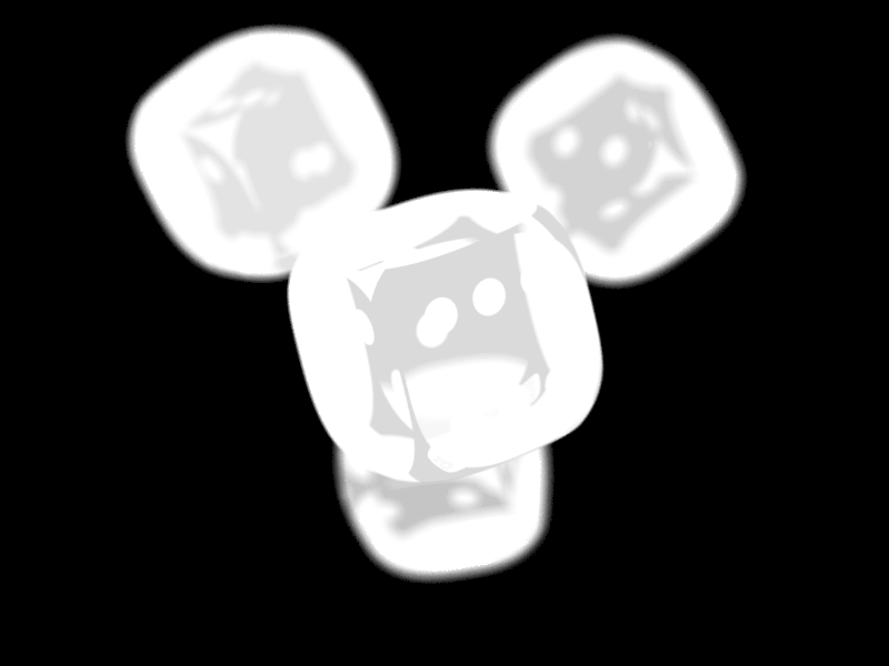 The alpha channel of Image:PNG transparency demonstration 1.png